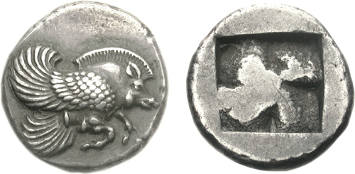 Greek coin from IONIA, Klazomenai 499 BC Greek coin depicting winged boar / Rough quadripartite incuse square